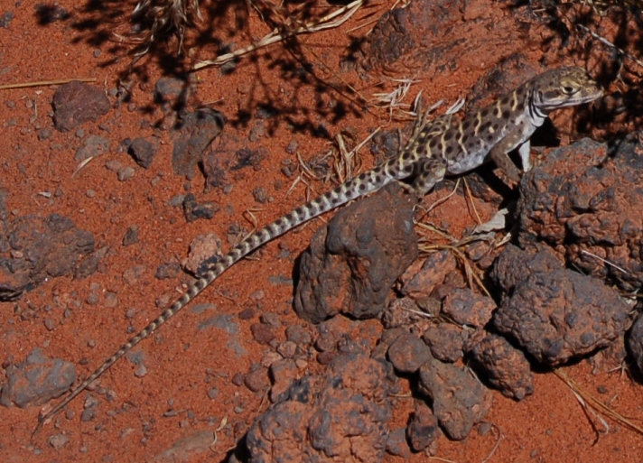 Long-nosed Leopard Lizard (Gambelia Wislizenii) in Snow Canyon, Utah. Note the gray coloration of the hide.